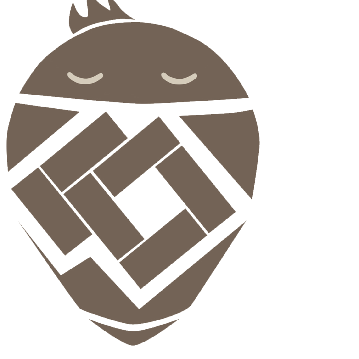 Luhur Busana Logo